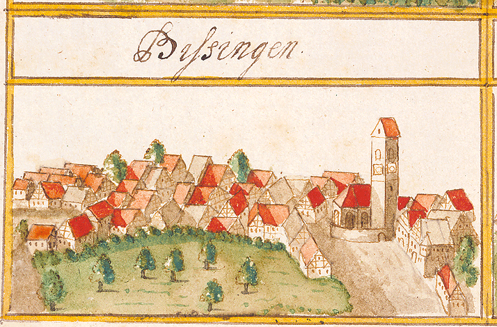 View of Bissingen an der Teck from the forest register books created by Andreas Kieser